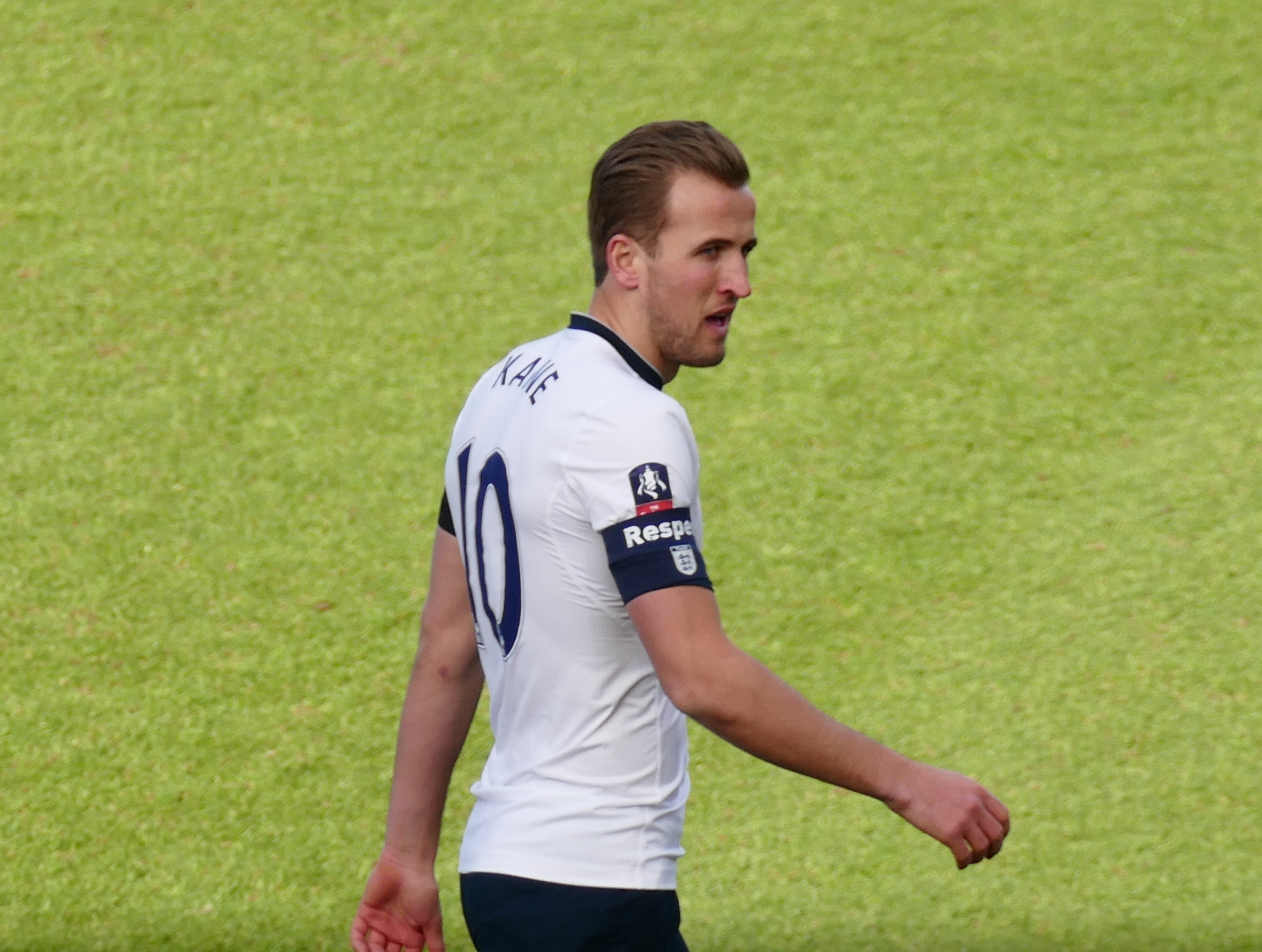 Harry Kane in a game against Colchester United in the FA Cup.